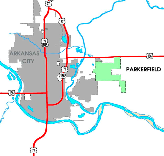 This map locating Parkerfield, Kansas, USA, is copied from the original PDF file.